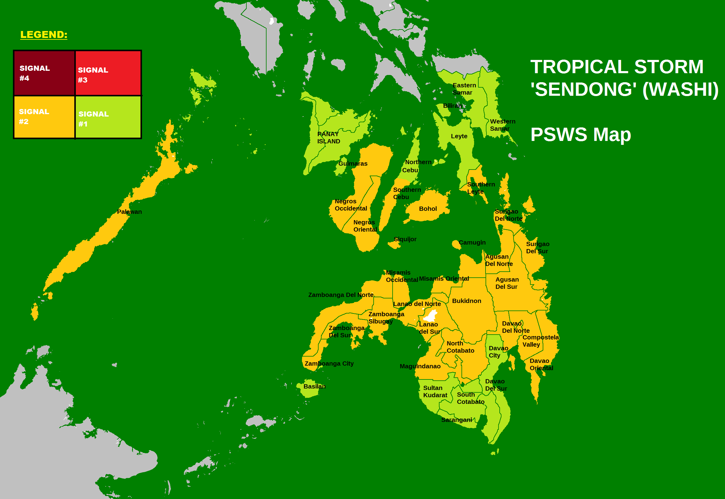 The Philippine Public Storm Warning Signal raised during Tropical Storm Washi (Sendong) approaches and made landfall several provinces in the Philippines